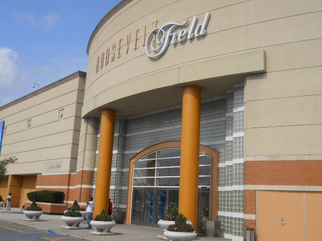 Roosevelt Field Mall, Garden City, Long Island, New York